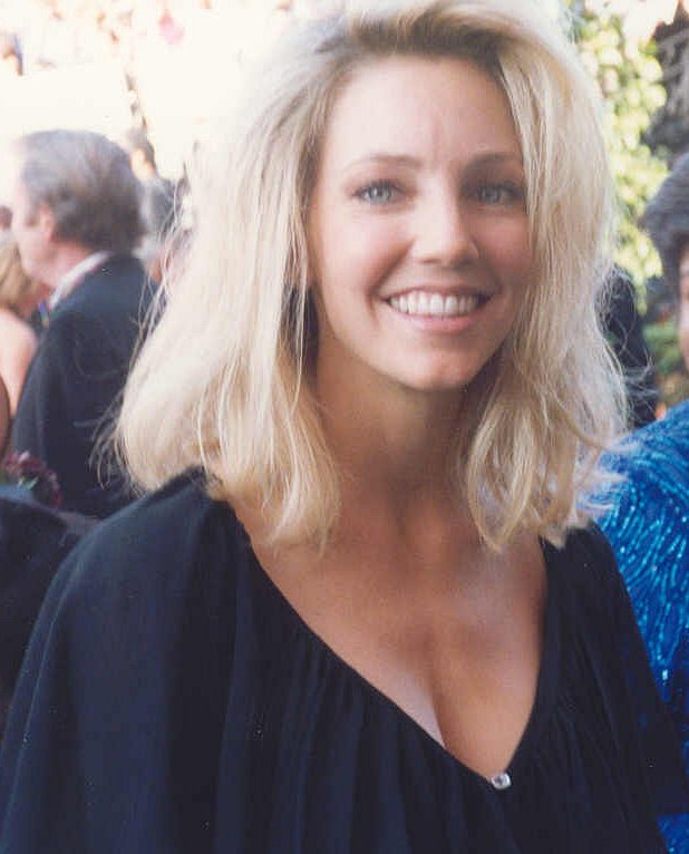 Actress Heather Locklear, Photo taken at the 45th Emmy Awards